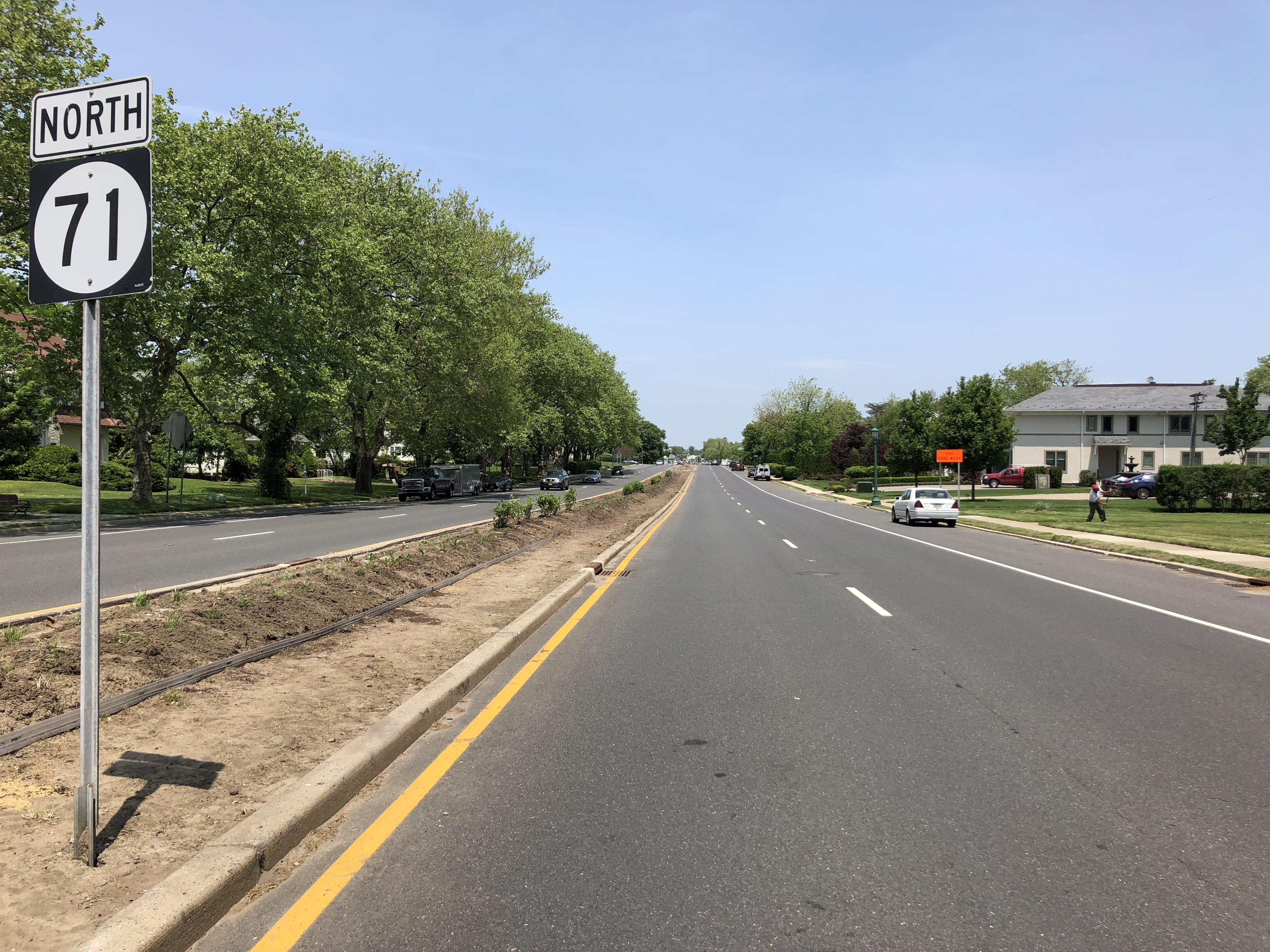 View north along New Jersey State Route 71 (Norwood Avenue) at Roseld Avenue in Deal, Monmouth County, New Jersey